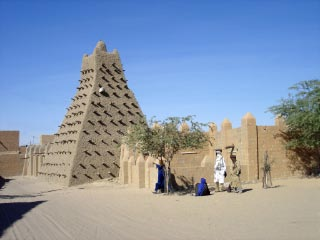 Sankore Mosque in Timbuktu, Mali, 2006.